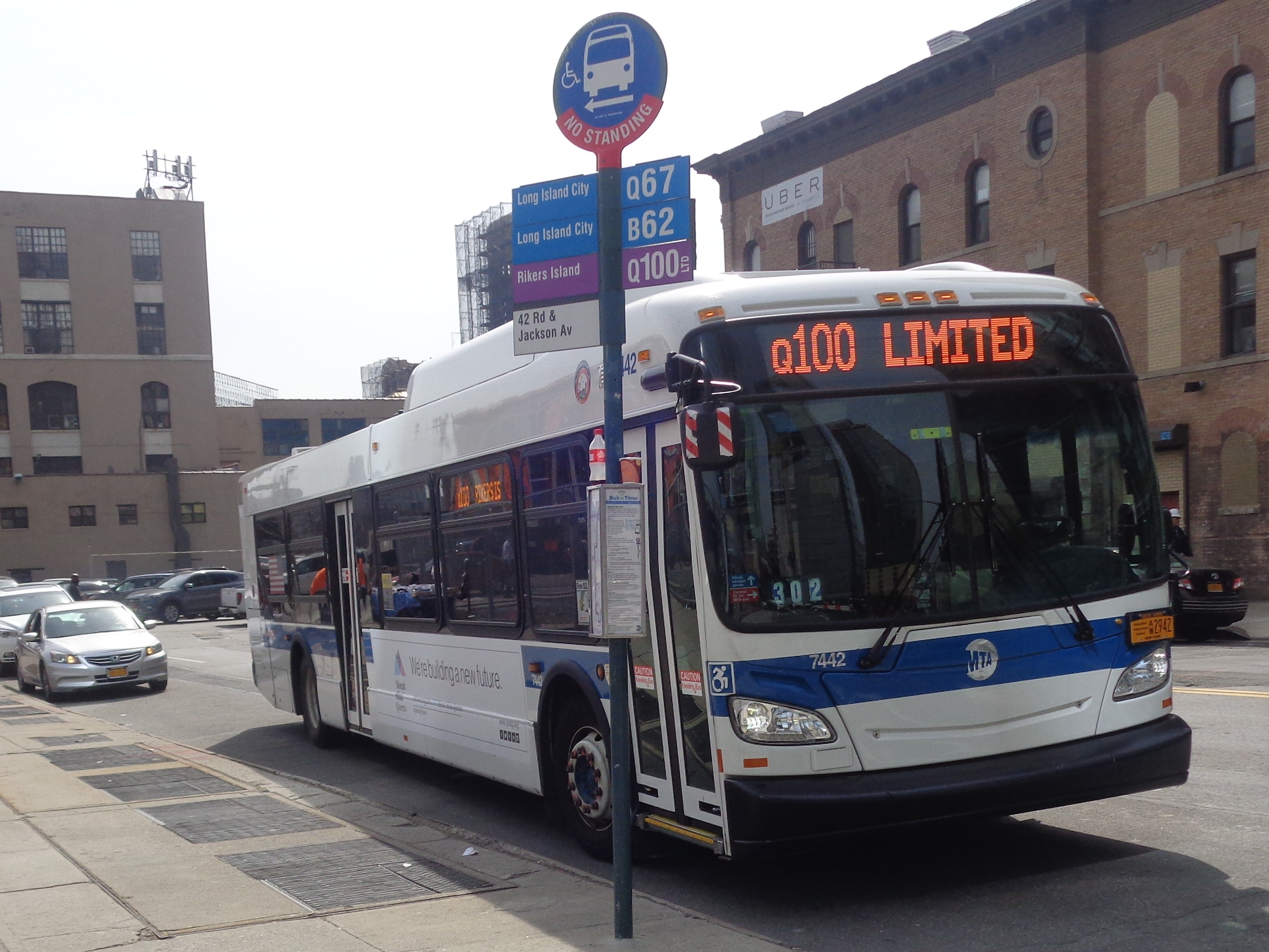 A Rikers Island-bound Q100 Limited bus entering service on 42nd Street between Jackson Avenue and 28th Street in Queens Plaza, Long Island City, Queens. The regular Q100 stop on Jackson Avenue is not in use due to construction.